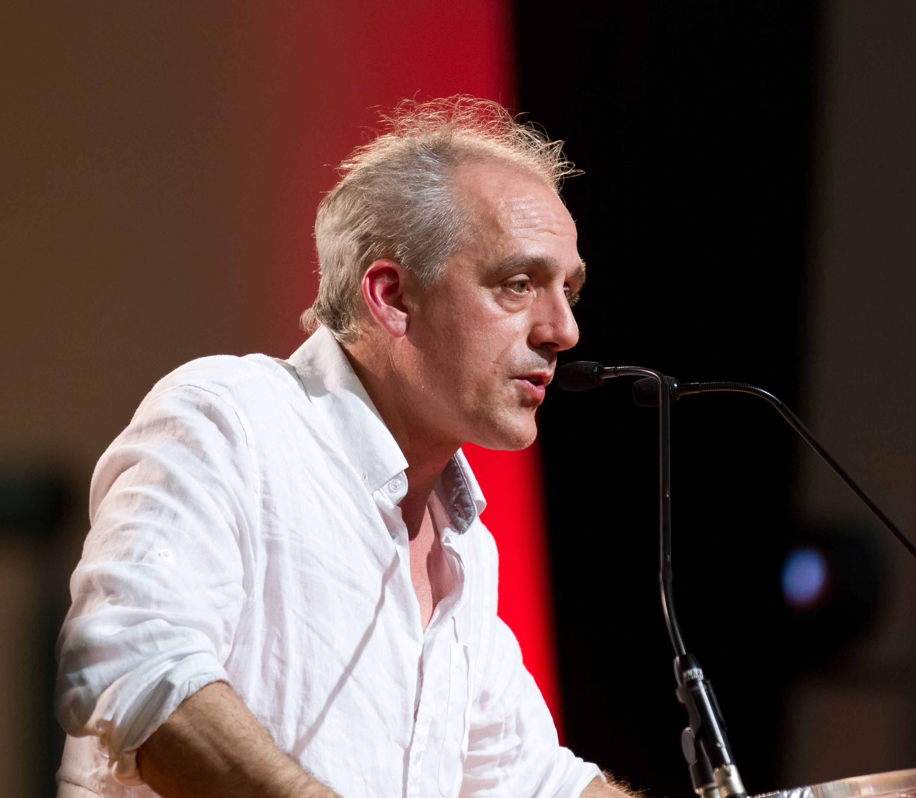 Philippe Poutou during his meeting in Toulouse on April, 17th 2012 for the 2012 presidential election.